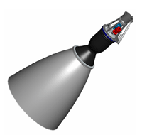 Kestrel rocket engine, Space Exploration Technologies, (SpaceX) (See talk page for GFDL permission notes and SpaceX contact information)